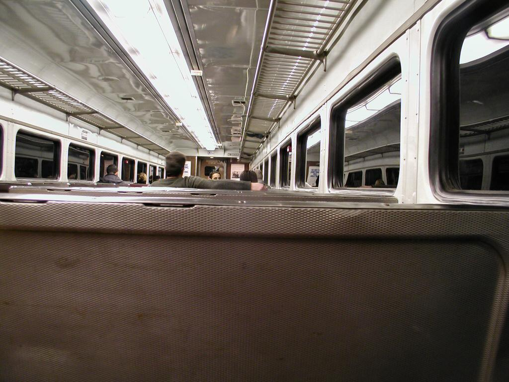 Interior of a Metro North ACMU railcar.